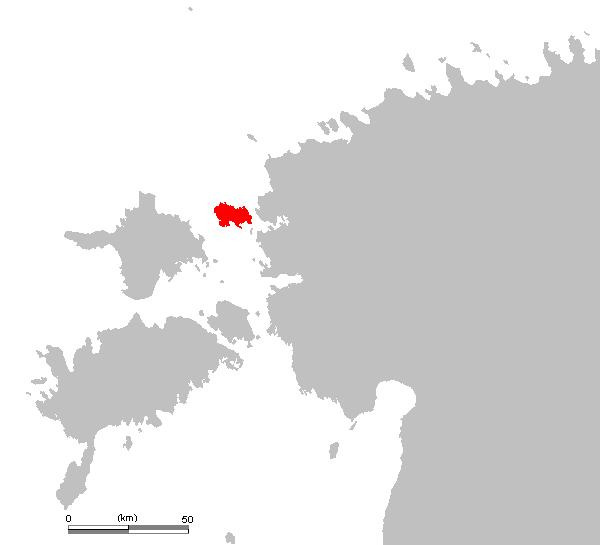 Vormsi island on the map of Estonia.